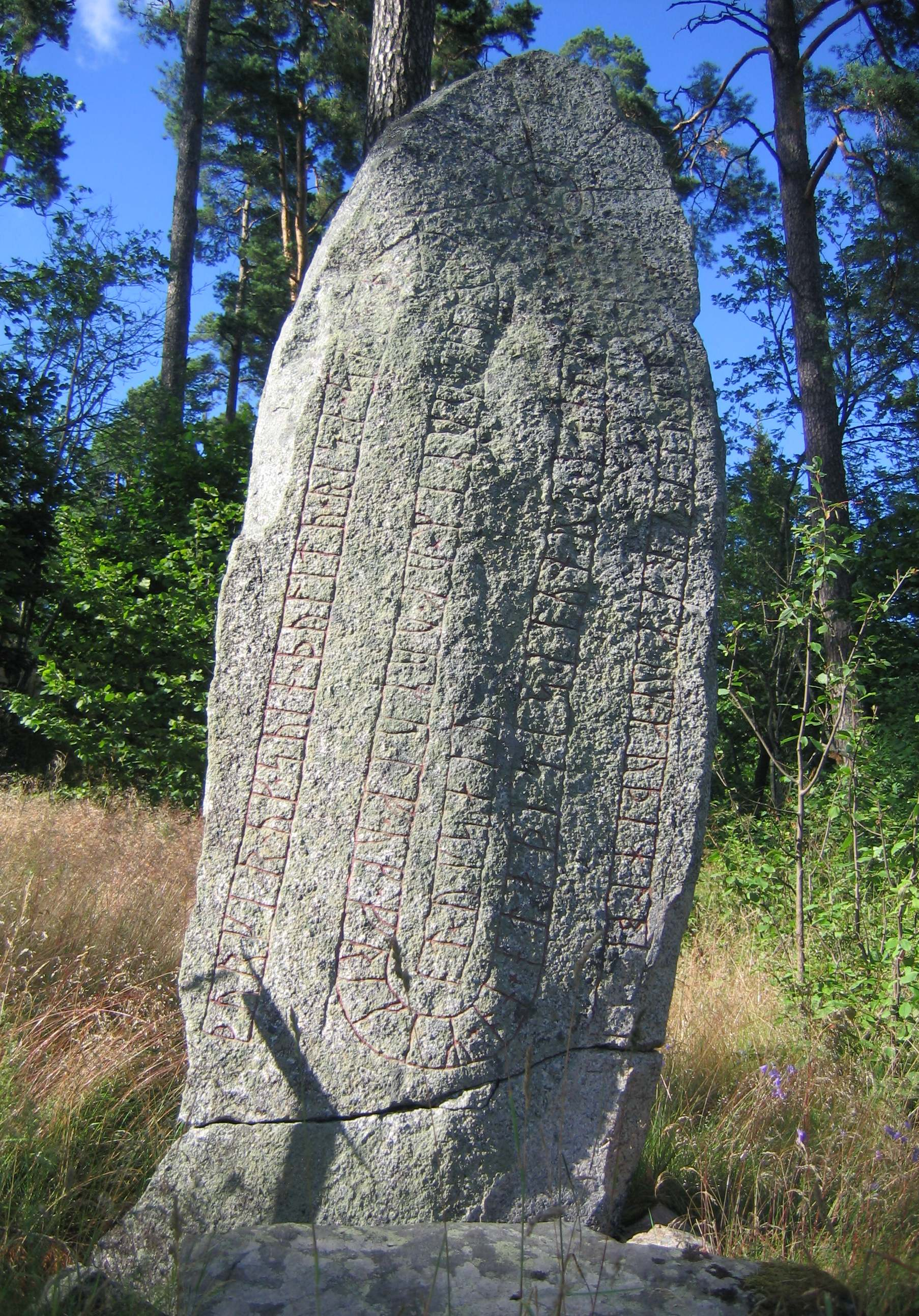 Runestone U 518, located some 700 m NE of the main building of the farm V. Ledinge in Uppland, Sweden.